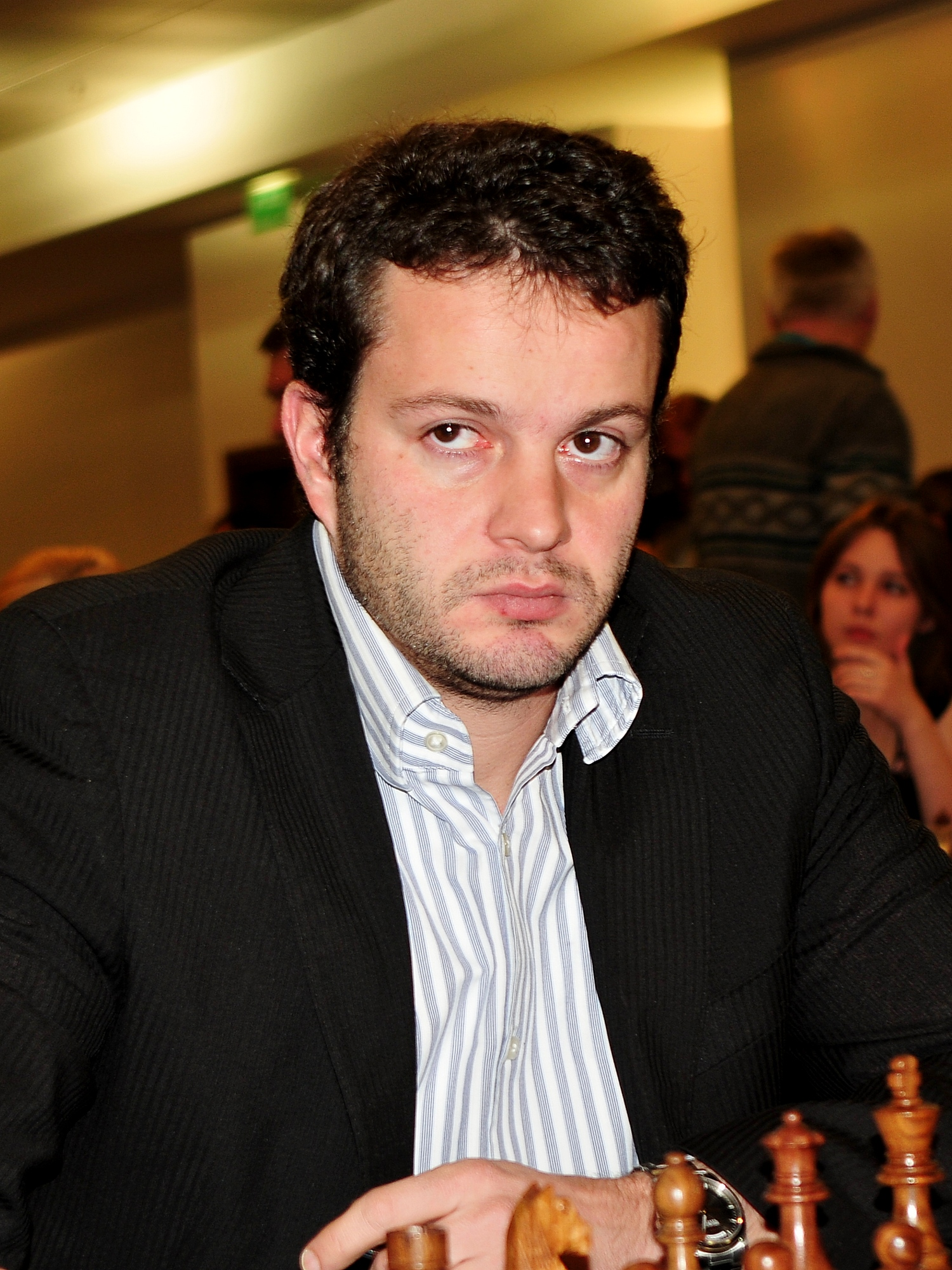 GM Étienne Bacrot, European Chess Team Championship Warsaw 2013